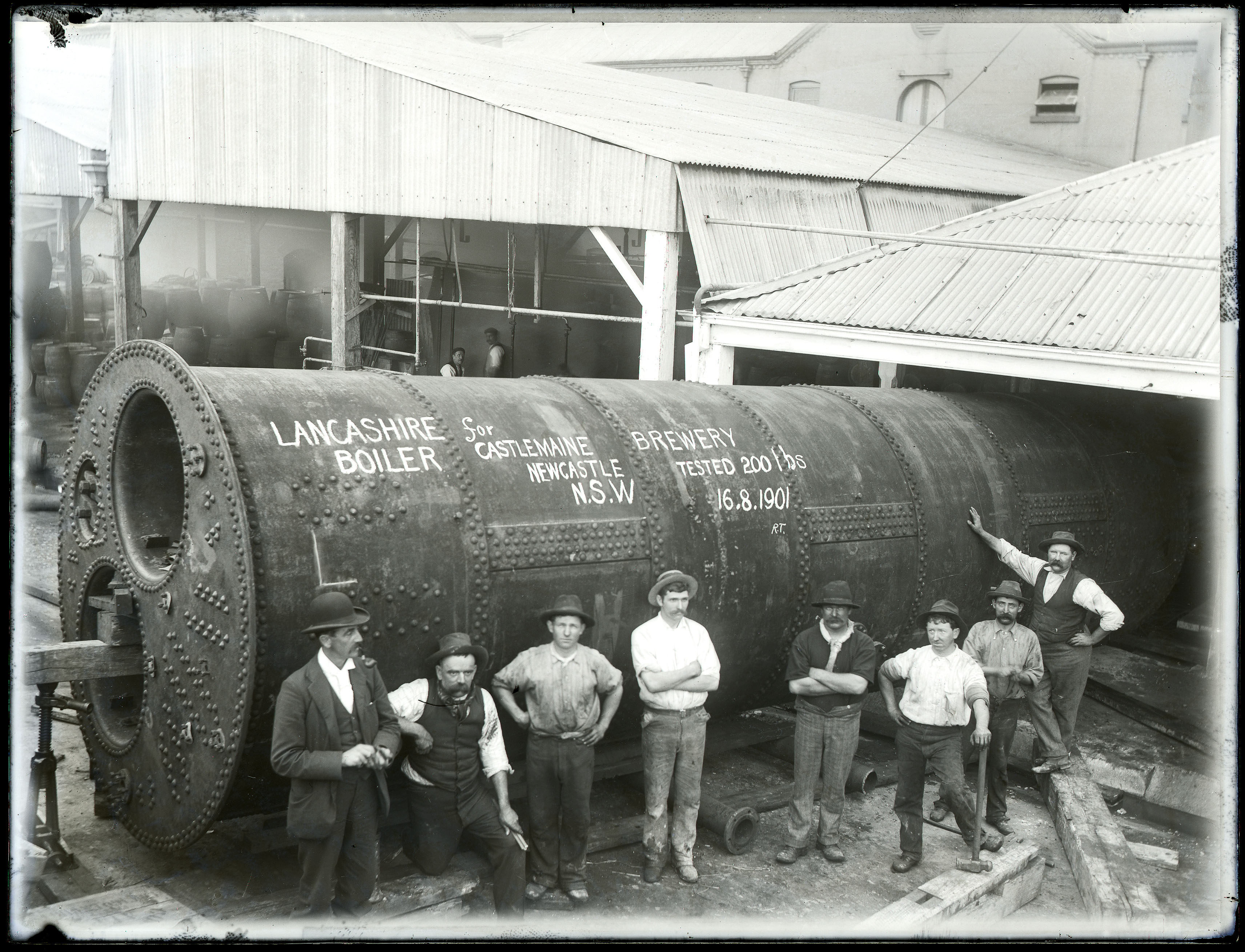 This image shows workers with a boiler at the Castlemaine Brewery & Wood Brothers & Co. site on Bolton Street, Newcastle. The Lancashire boiler, weighing 200lbs, was tested on 16 August 1901.